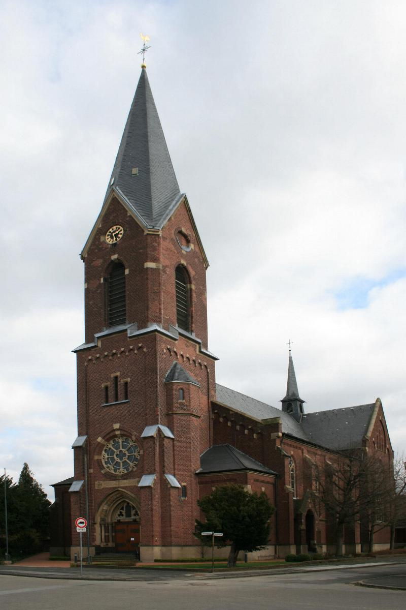 St. Leonhard Hilfarth